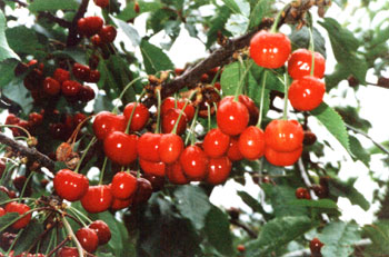 Cherry fruit.